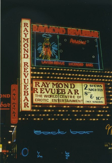 Raymond Revuebar Once upon a time in Soho